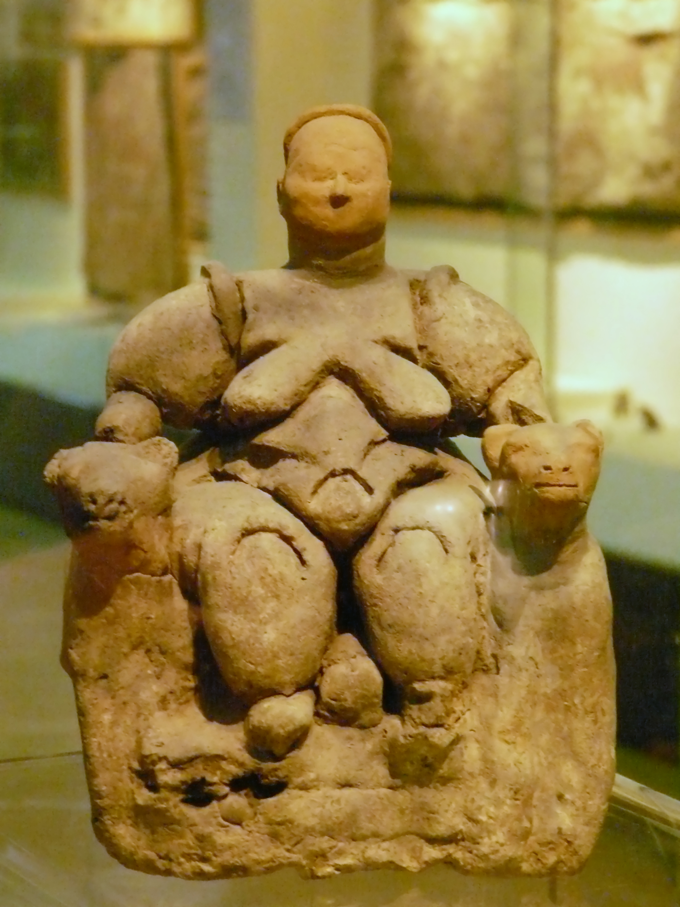 Goddess of fertility, Ankara Anatolian civilization museum